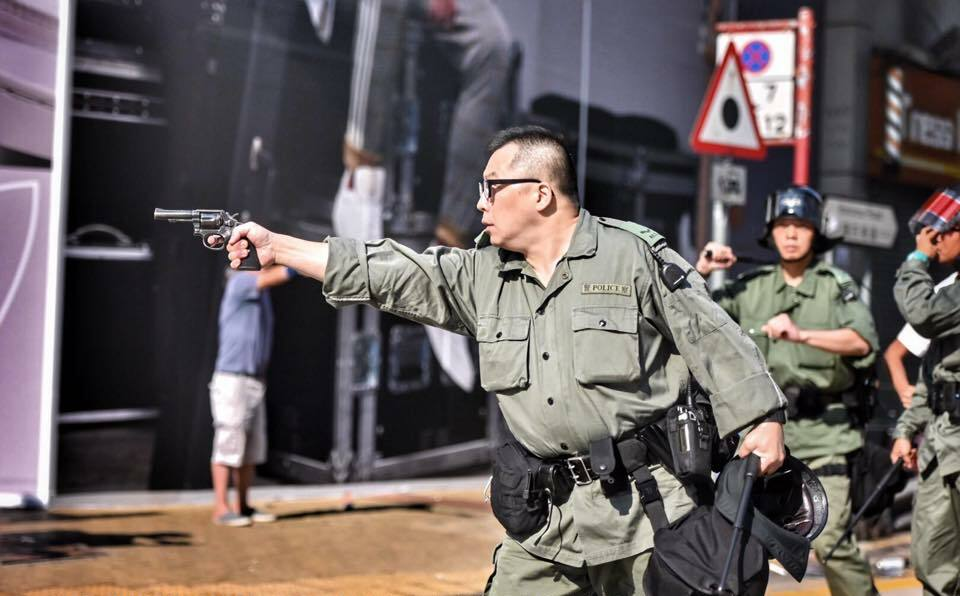 Police draws gun against protesters, then shot warning rounds to the sky. 粵語: 【油麻地1540】講返頭先兩個警員向天開槍單野，其實當時仲有第三個警察攞槍出來指向示威者，手指仲要放落個雞度，佢真係想向示威者開槍。 #十一沒有國慶只有國殤大遊行 #原來無射向人心口已經算克制